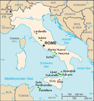 Map of active Italian volcanoes Adapted from Image:It-map.png